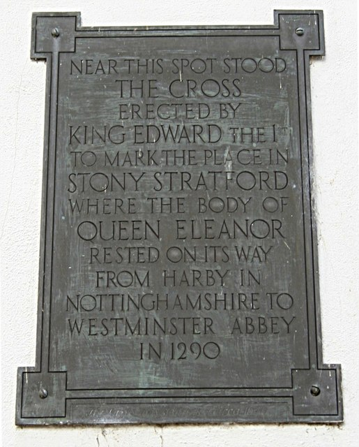 Eleanor Cross Plaque. Commemorative plaque at Stony Stratford Eleanor Cross site 569461